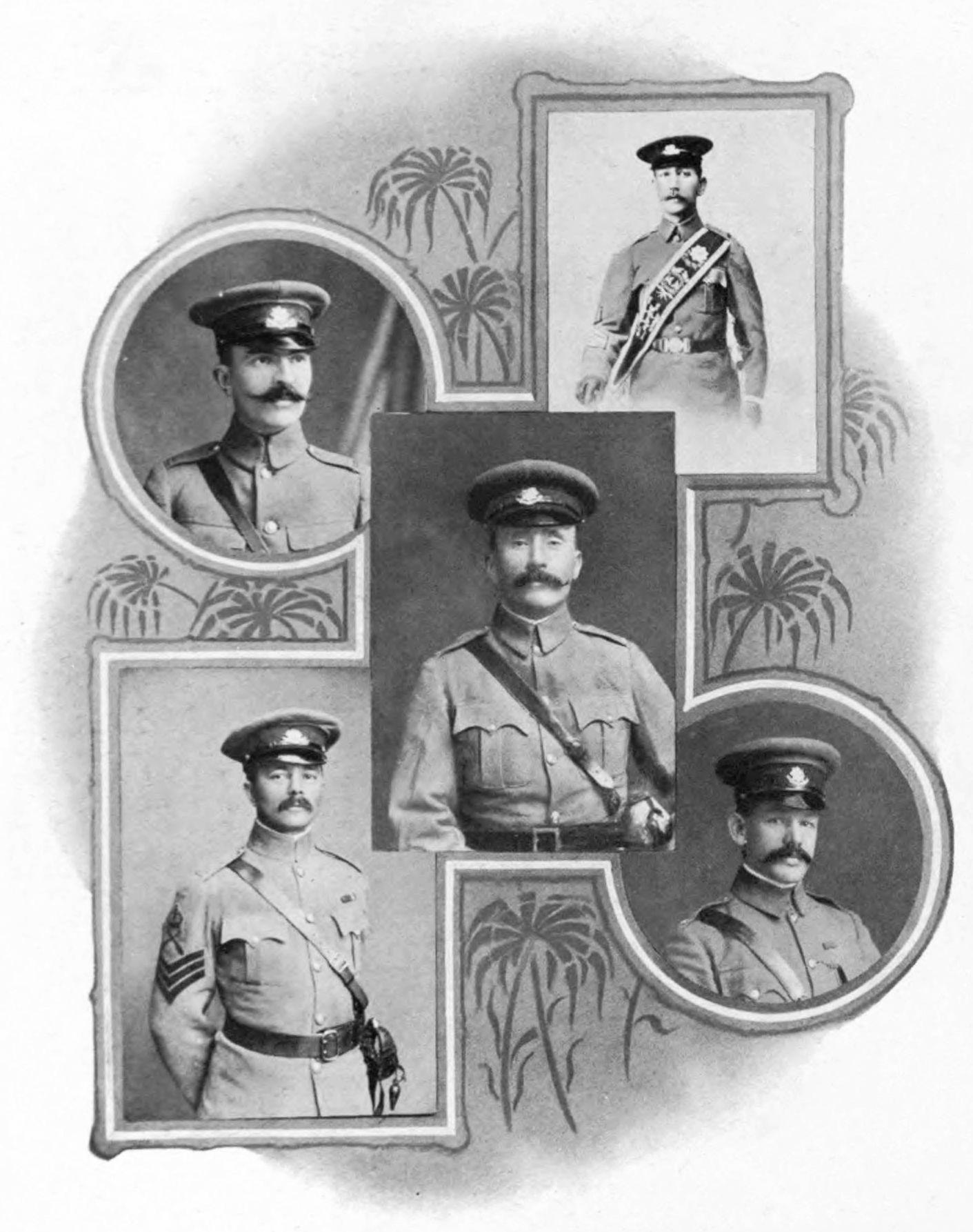 officers of the shanghai volunteer corps